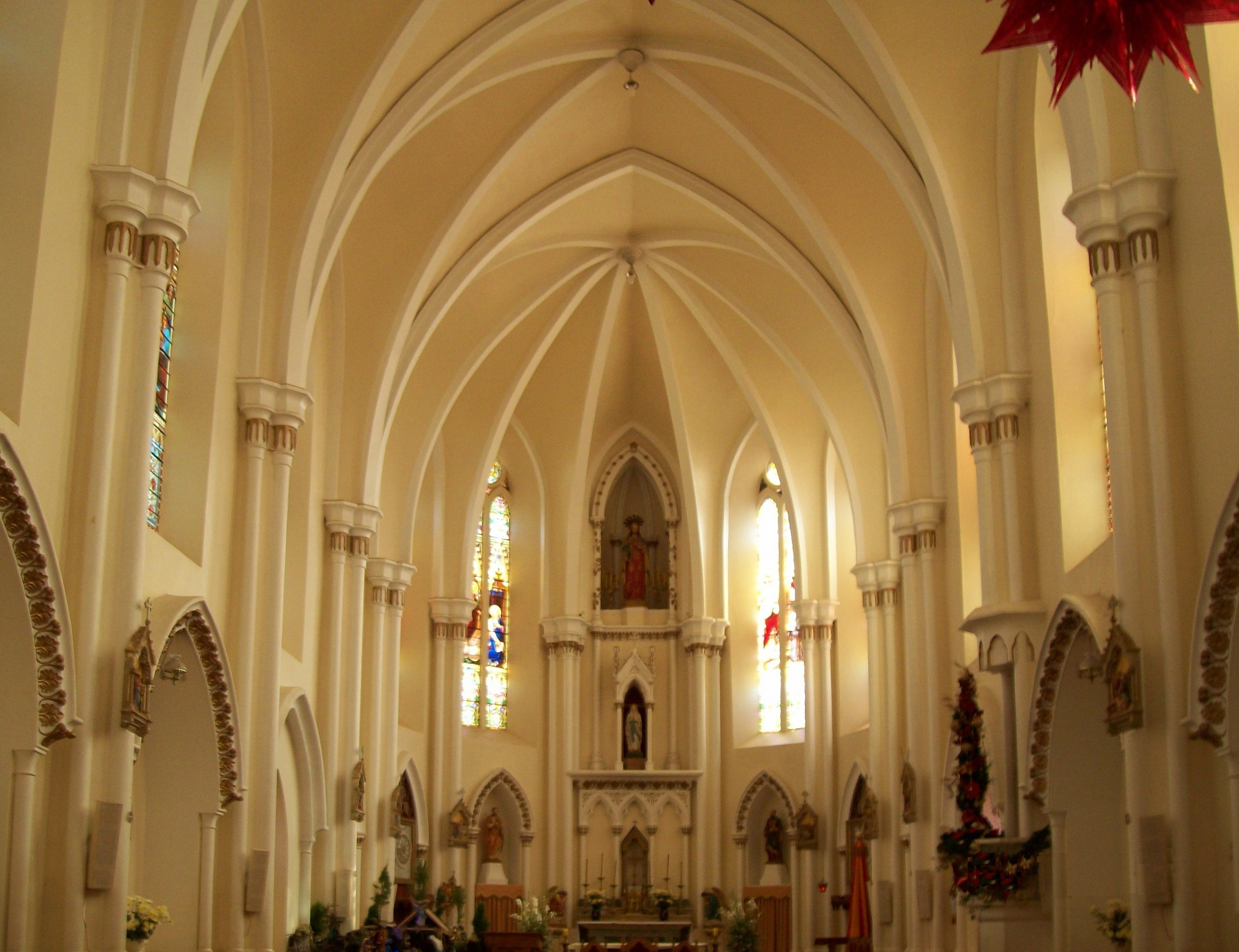 Diamantina MG Brasil - Interior da Basílica Sagrado Coração de Jesus